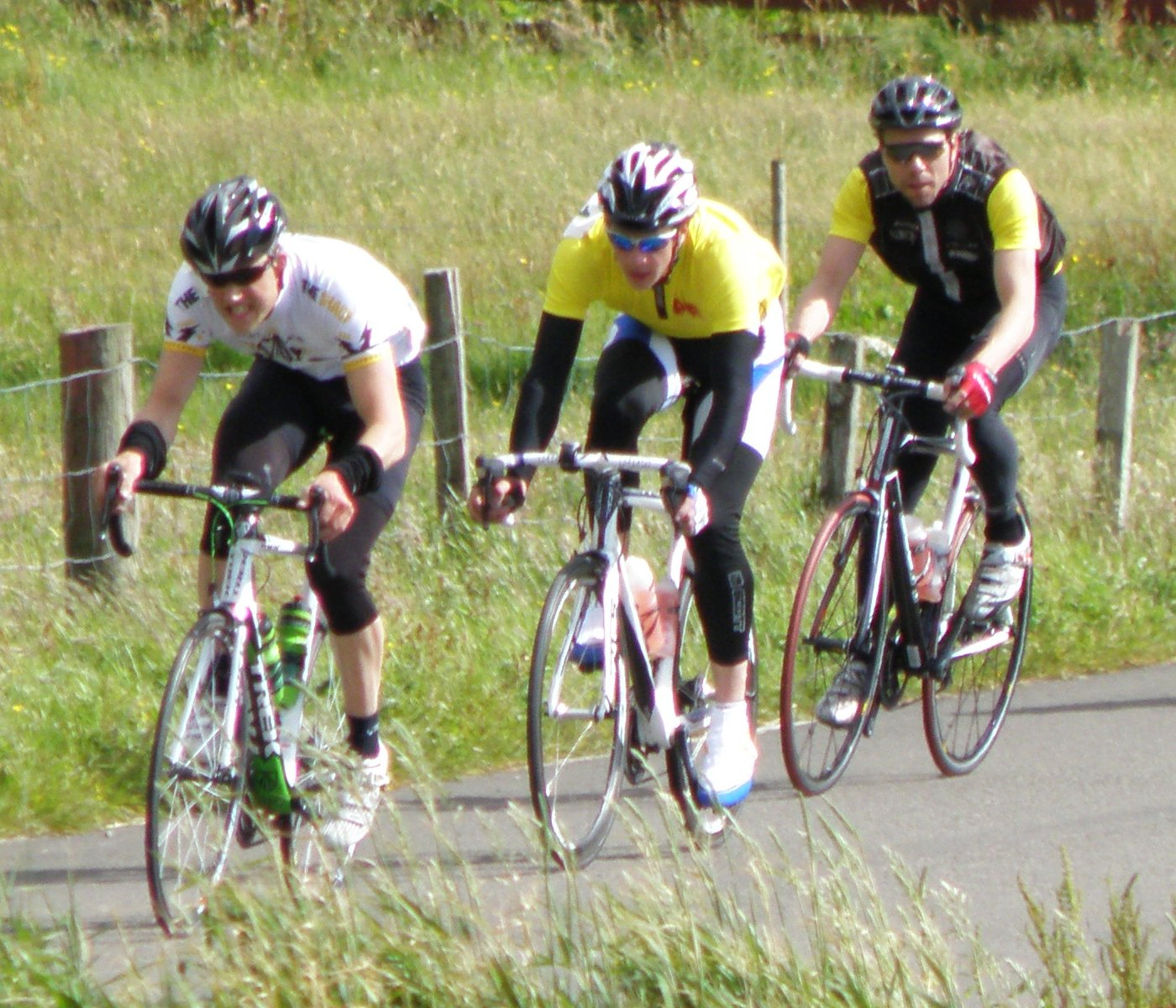 This photo was taken in the village Fámjin, which is located on the west coast of the island Suðuroy in the Faroe Islands. These three road bicicle racers were the first to enter Famjin. The competition is called Statoil Kring Føroyar 2010, it is an annual sports event in the Faroe Islands. The competition is around the Faroe Islands. In 2010 it was 341 km starting in Klaksvík in Borðoy, continuing to these islands: Eysturoy, Suðuroy, Vágar and Streymoy, ending in Tórshavn on the 5th day. The winner of the competition has been the same person for two years in a row now, Torkil Veyhe from Tórshavnar Súkklufelag won Statoil Kring Føroyar in 2009 and 2010; he was a part of Team PE, he is the person in the center of this photo. The person to the right on the photo is Gunnar Dahl-Olsen who was on the same team as Torkil Veyhe. There were also participants from other Nordic counties, i.e. from Iceland and Denmark. Føroyskt: Myndin var tikin í Fámjin 23. juli 2010 tá súkklarnir í kappingini Statoil Kring Føroyar súkklaðu oman til bygdina, har teir síðani vendu og hildu leiðina fram. Torkil Veyhe vann samlaðu kappingina við tíðini 9:45:11. Teinurin var 341 km. Súkklarnir súkklaðu víða um í Føroyum, súkklað var í hesum oyggjum: Borðoy, Eysturoy, Suðuroy, Vágum og Streymoy. Torkil er mittast á myndini. Maðurin til høgru er Gunnar Dahl-Olsen, sum vann seinasta teinin av Statoil Kring Føroyar. Teir báðir vóru á sama liðið, sum nevnist Team PE, saman við Guðmundi Joensen. Torkil Veyhe vann eisini kappingina Statoil Kring Føroyar í 2009. Luttakarar vóru eisini úr øðrum Norðanlondum, t.d. úr Íslandi og Danmark.